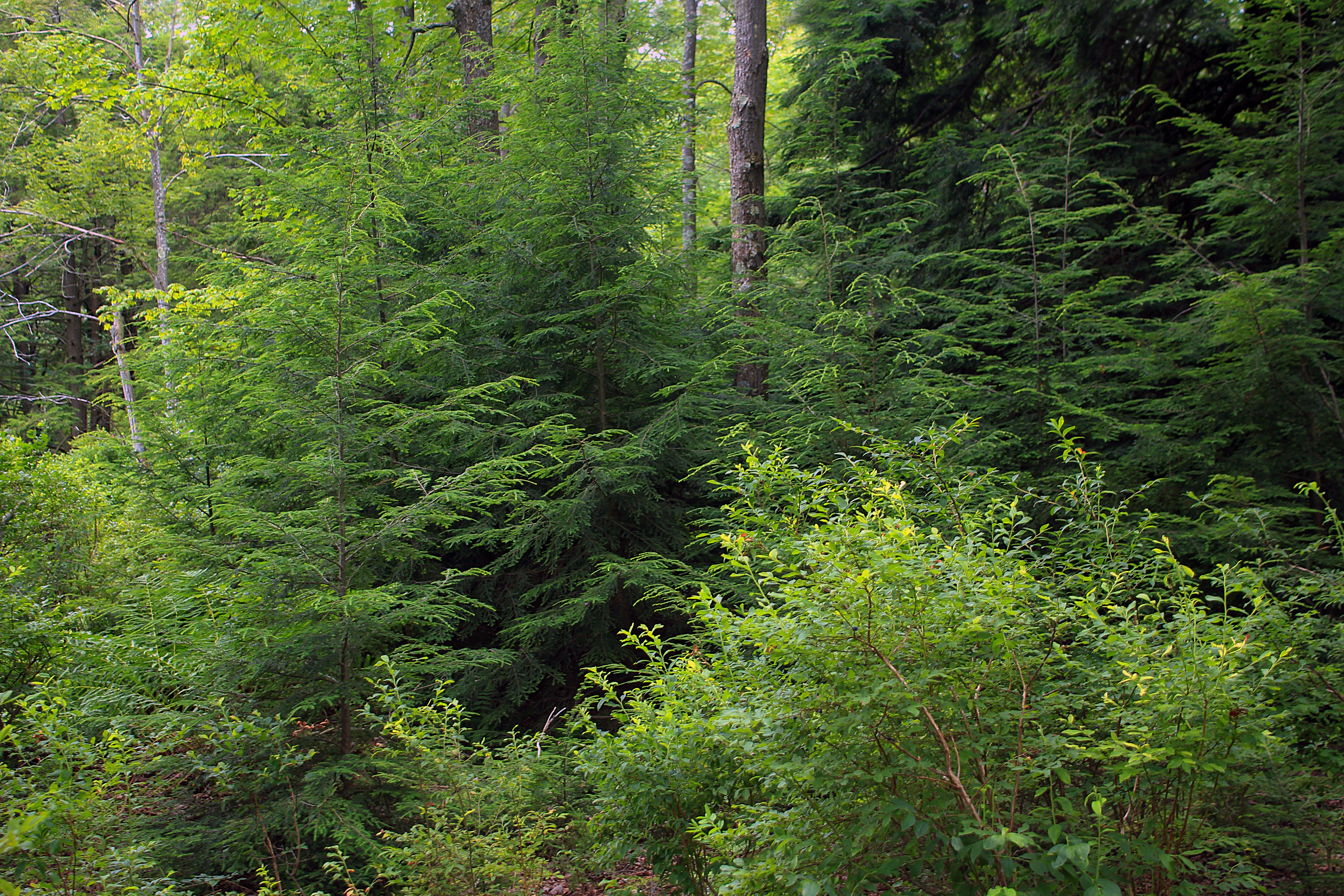 Dense growth of hemlocks, spruces, shrubs, and northern hardwoods, Loyalsock State Forest, Lycoming County, along the Old Loggers Path. The Old Loggers Path is a 27-mile backpacking trail that traverses the dense second-growth forest covering the summit and slopes of Sullivan Mountain—land once owned by the Union Tanning Company and, later, the Central Pennsylvania Lumber Company. The trail is so named because it largely follows the logging roads and railroad grades that these companies left behind.